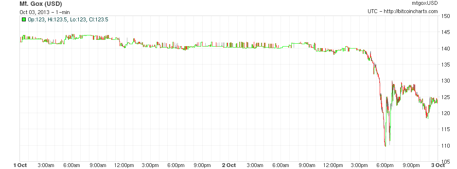 Bitcoin/USD price reaction on Mt. Gox to Ross William Ulbricht arrest